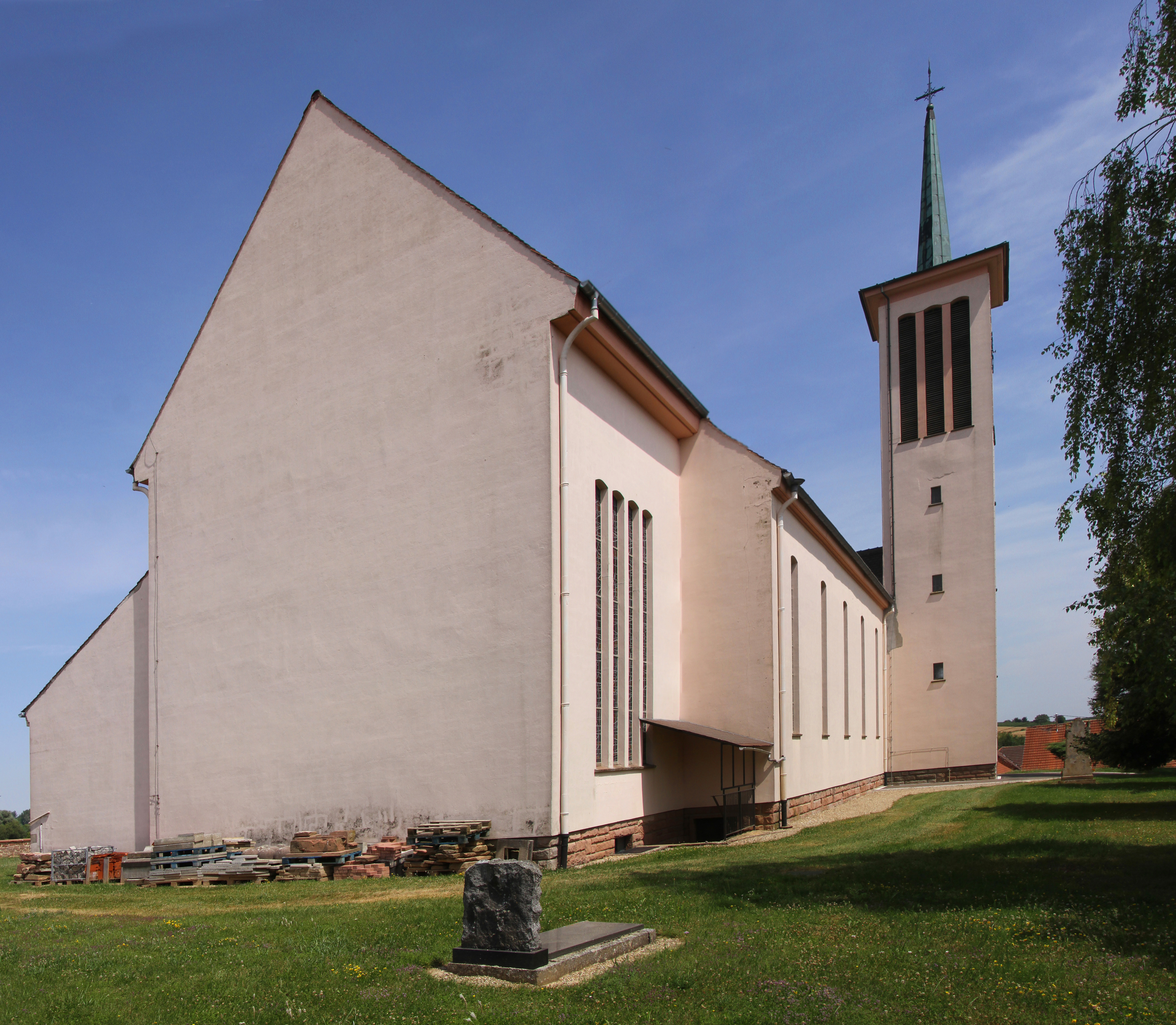 Church of St. Georg in Stundwiller.